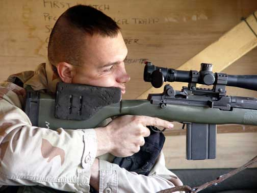 KABUL, AFGHANISTAN (February 2003) - Lance corporal Jeremy R. Riddle, designated marksman for Task Force Kabul, looks through his scope of his designated marksman rifle (modified M-14) at any threats on and outside the U.S. Embassy compound here in Kabul, Afghanistan. He is here to assist the task force in gathering information and precision marksmanship. The task force is part of the 4th Marine Expeditionary Brigade (Anti-Terrorism), and have been here since December.